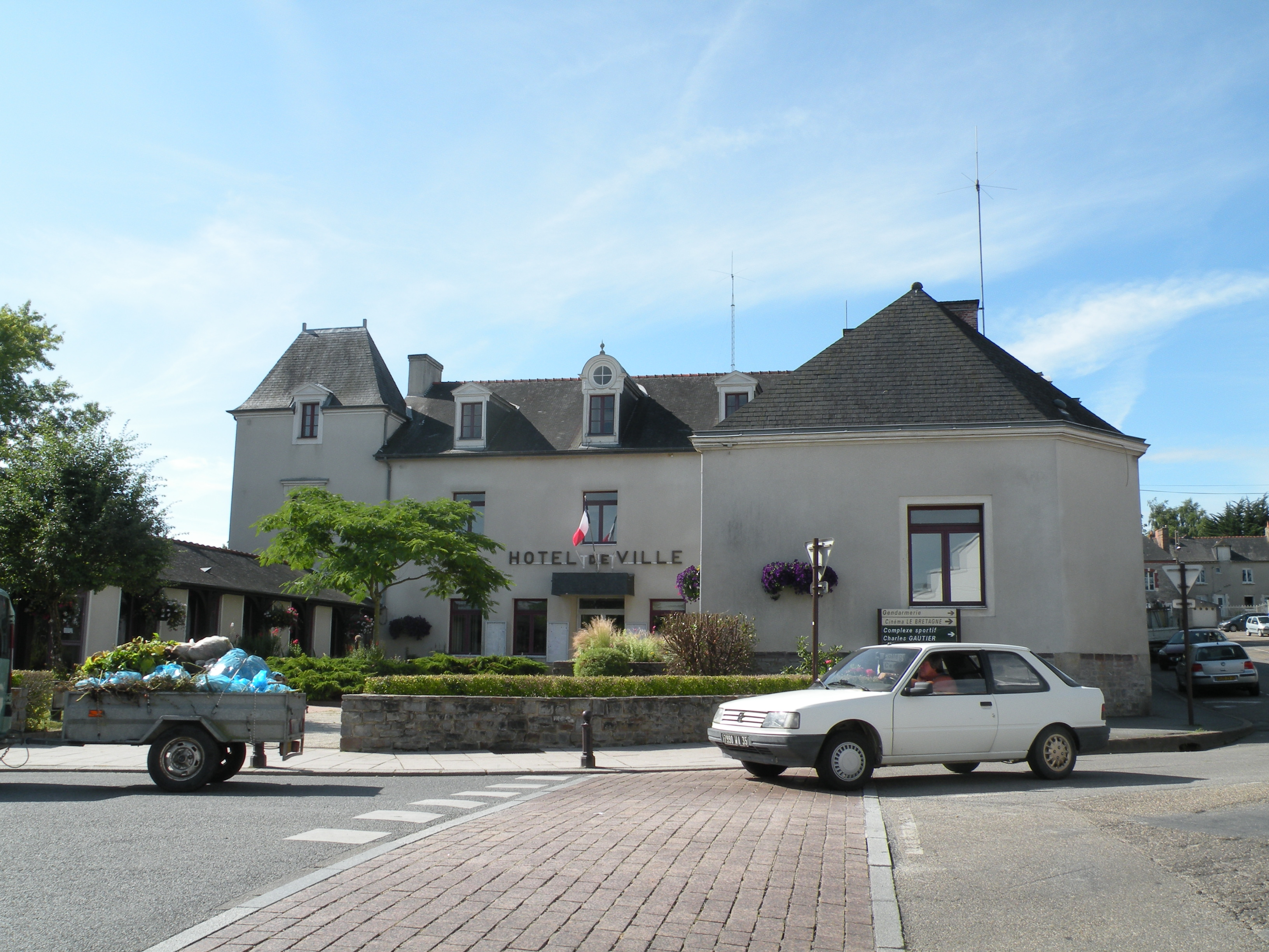 Town hall of Guichen.